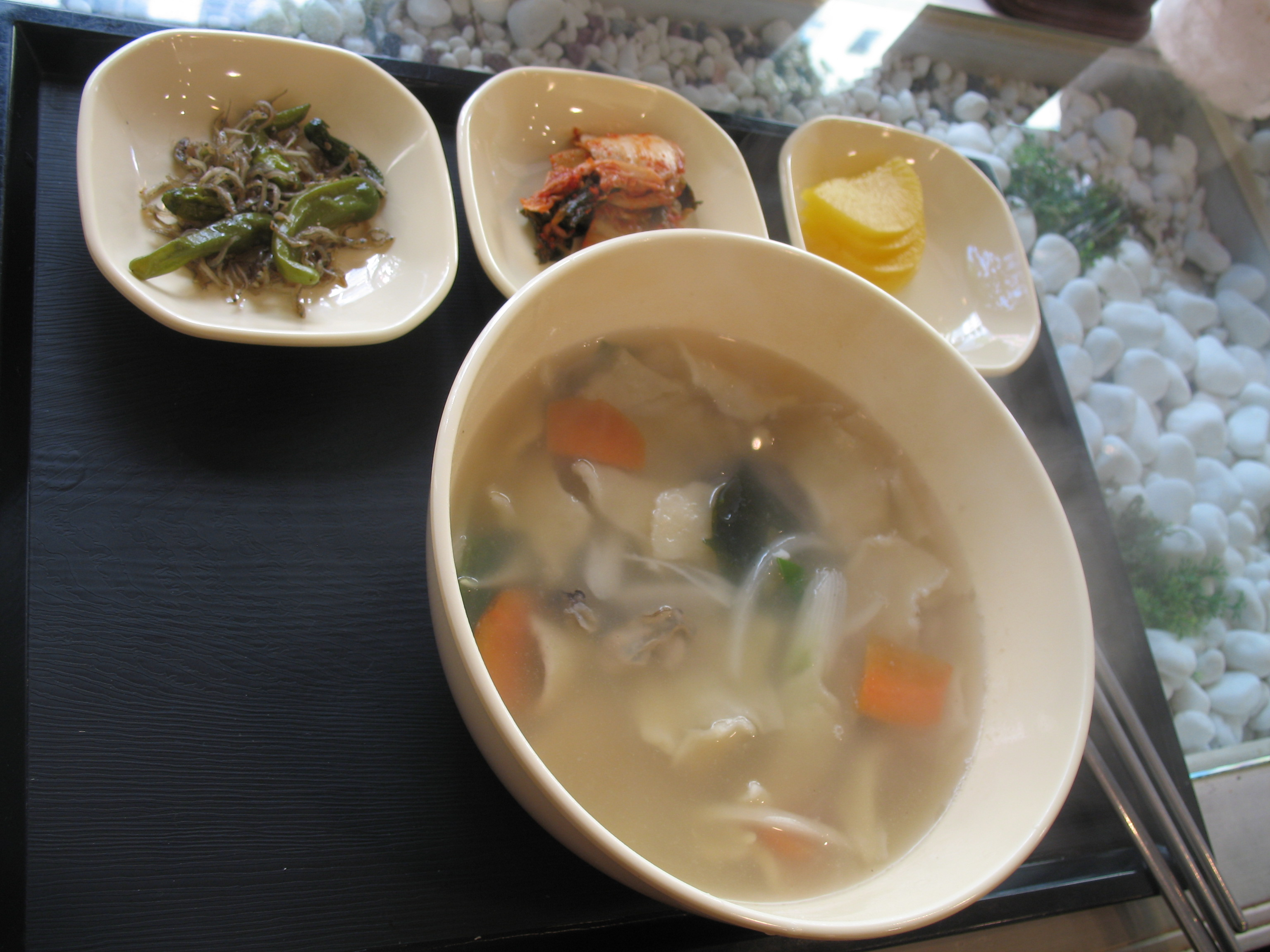 Sujebie, a Korean dish consisting of a soup with wheat flakes roughly torn by hands.